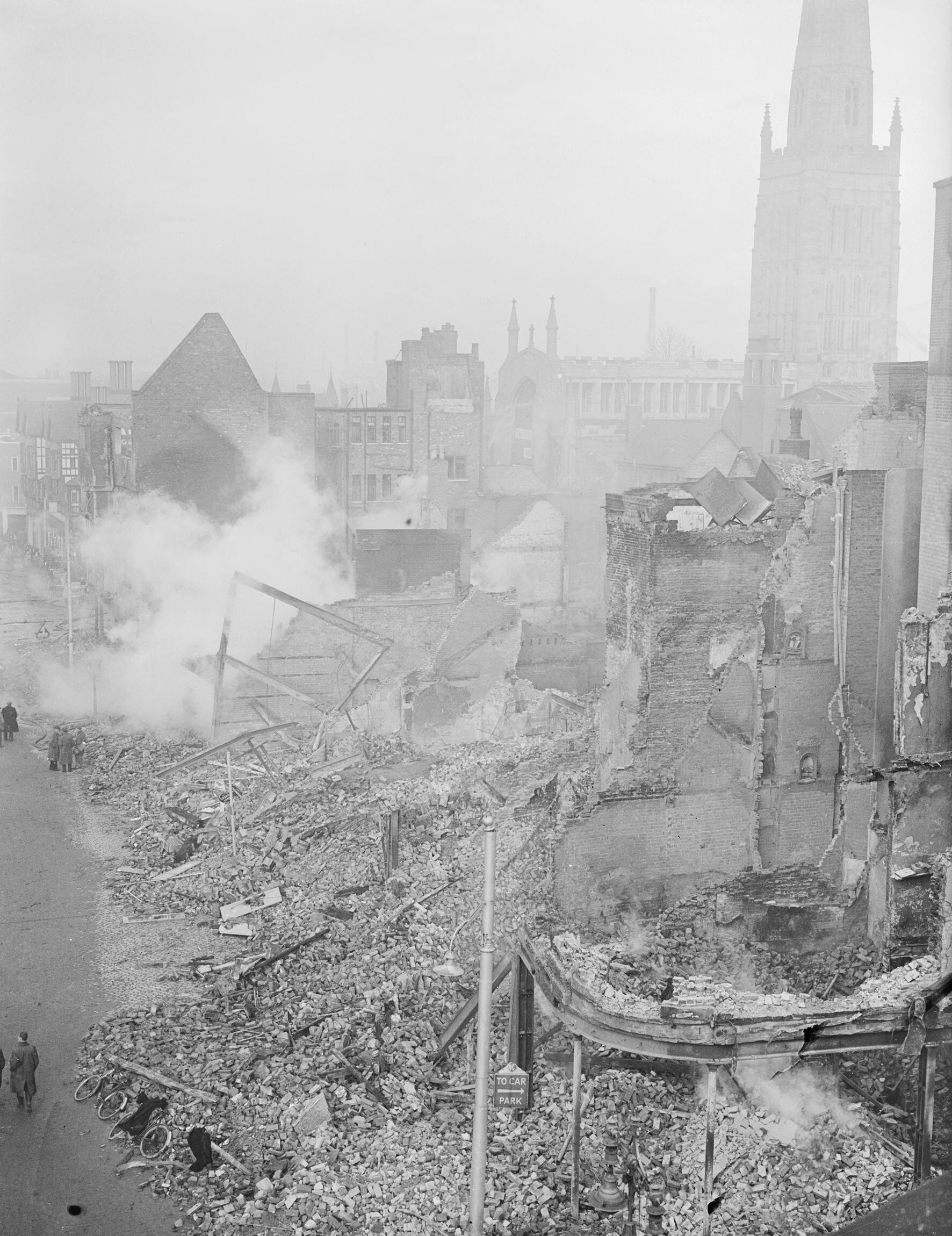 The Blitz, 1940 - 1941 The 14th-century cathedral and surrounding buildings lie in ruins in Coventry, England, on 16 November 1940.